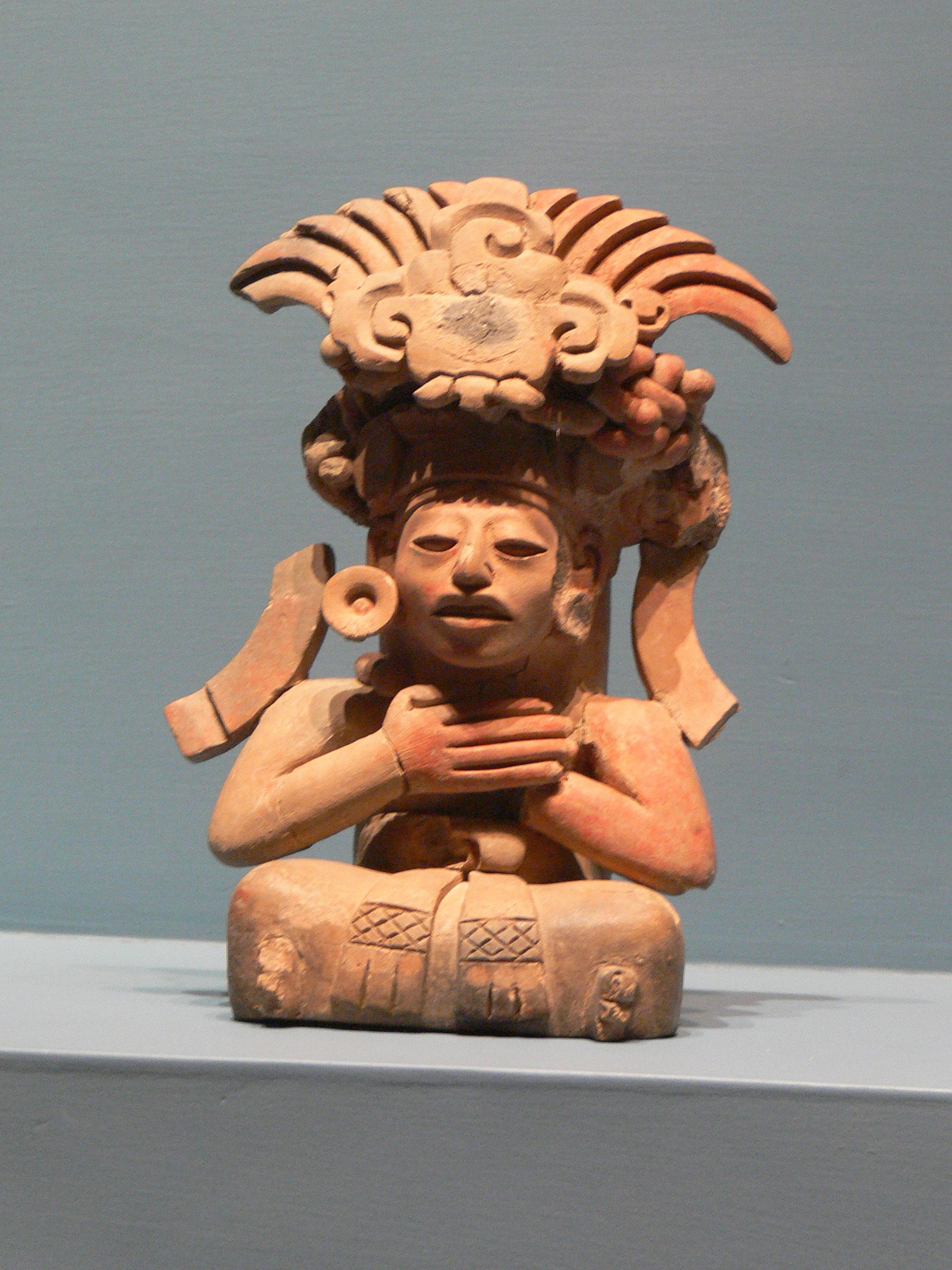 Monte Albán - Museo del sitio. Statue of a priest.